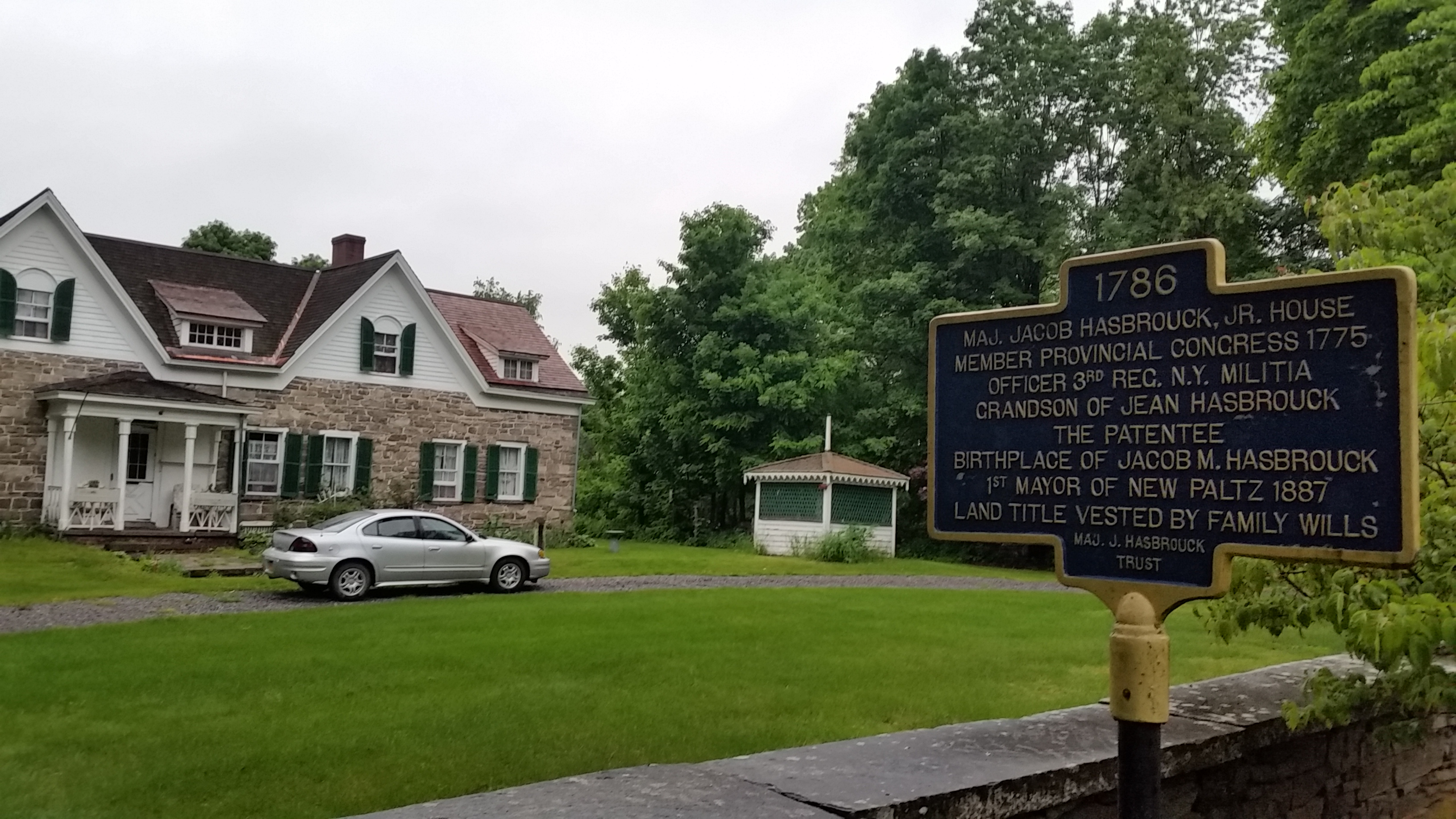 NY State historical marker for Jacob Hasbrouck Jr.'s home